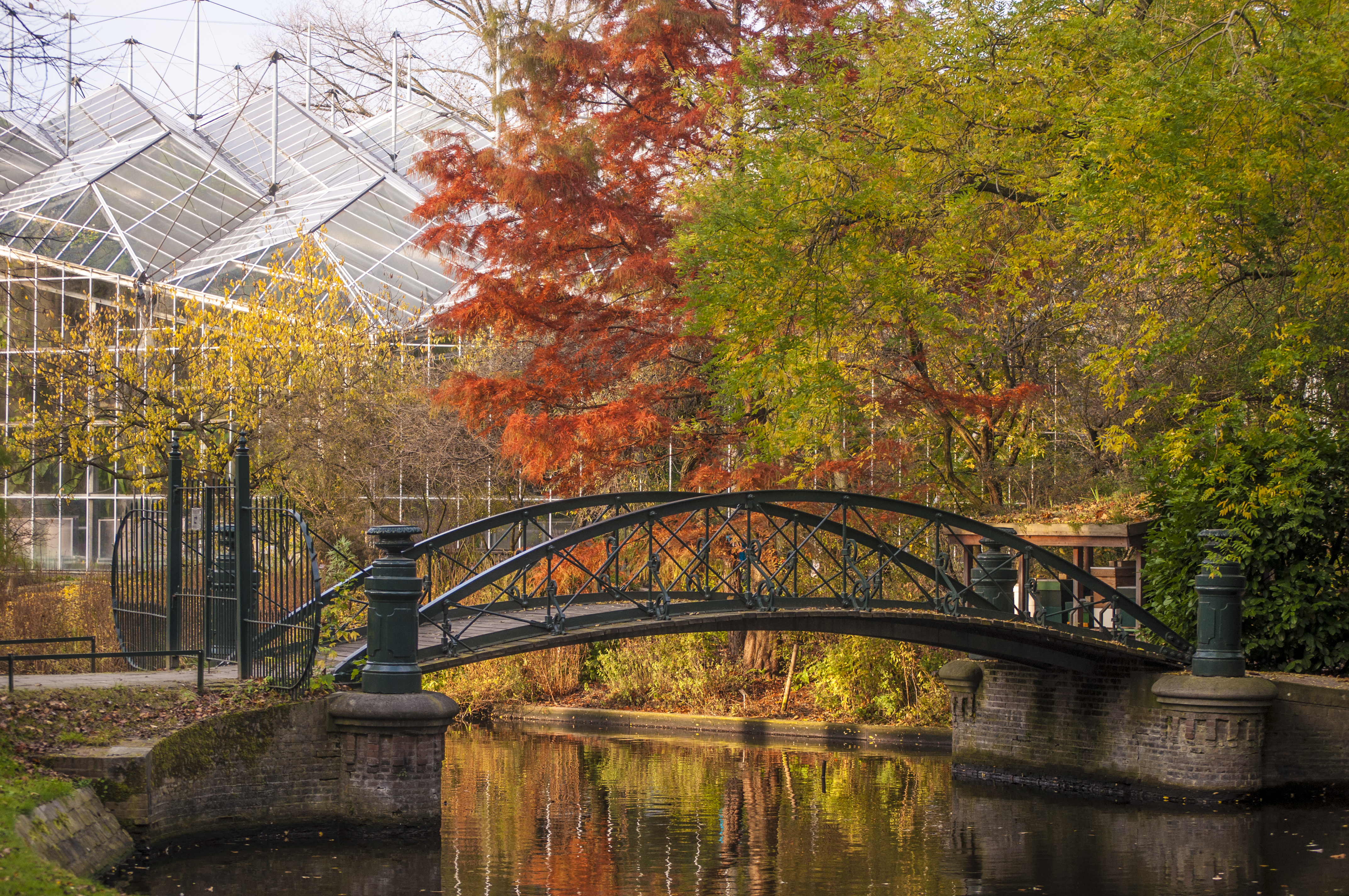 East entrance bridge to the Hortus Botanicus in Amsterdam, iron